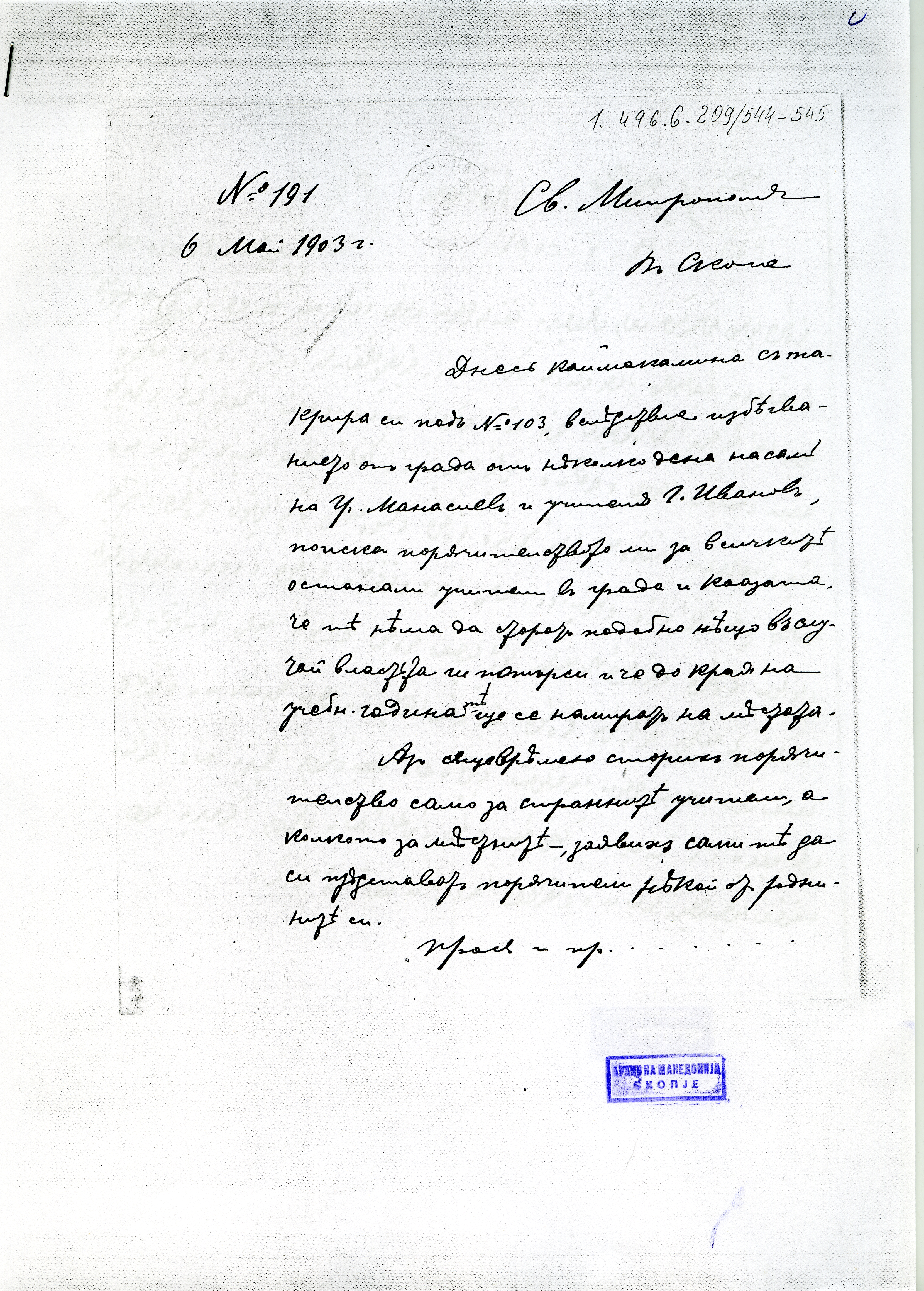 A Letter from the Vicar of Kratovo to the Skoje Bulgarian Metropoly with the information that Grigor Manasiev and the teacher G. Ivanov have gone underground.